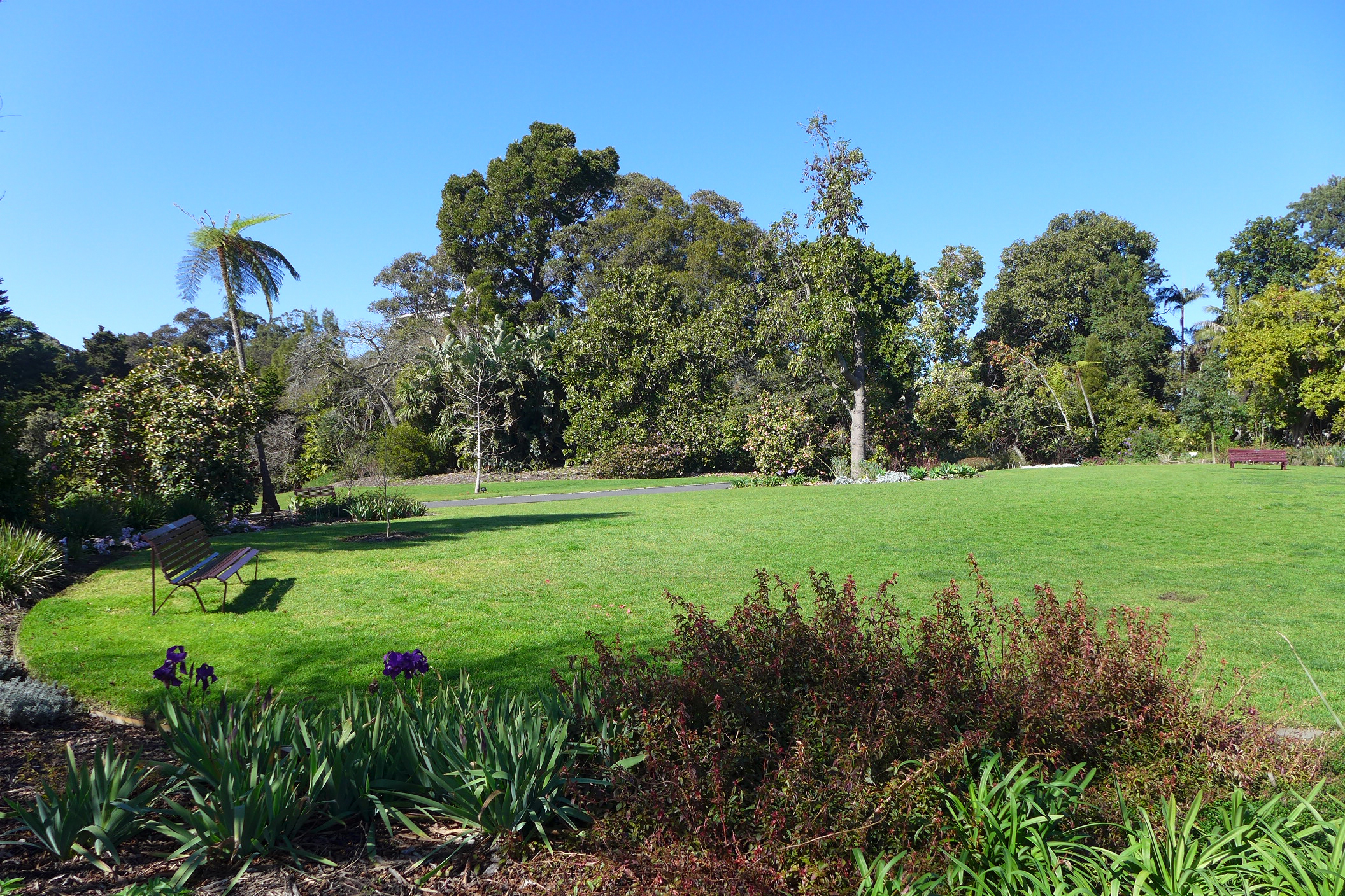 Royal Botanic Gardens Melbourne Southern Lawn